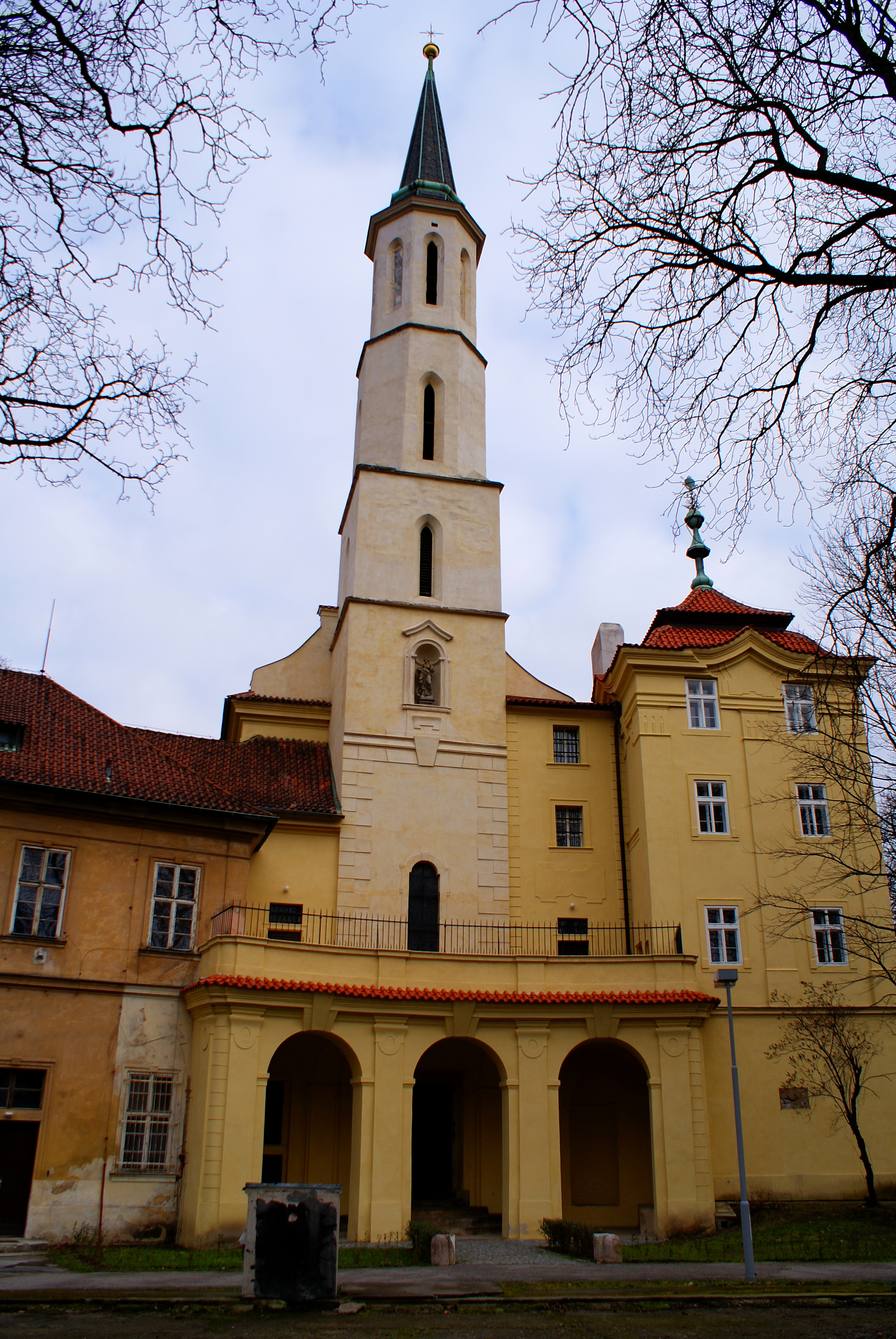 The frontage of st. Catherine church in Prague